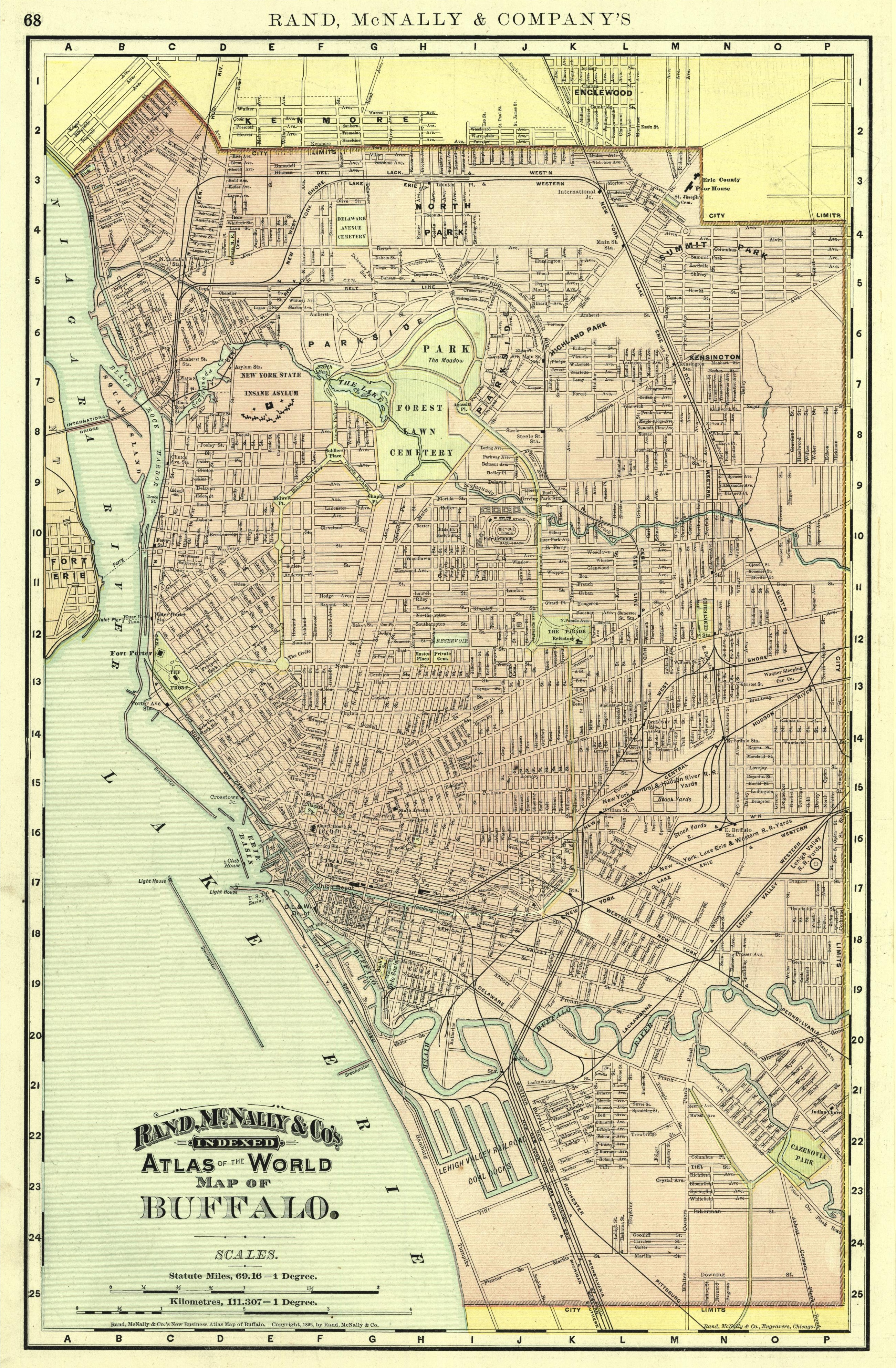 Buffalo Street Map, 1892.